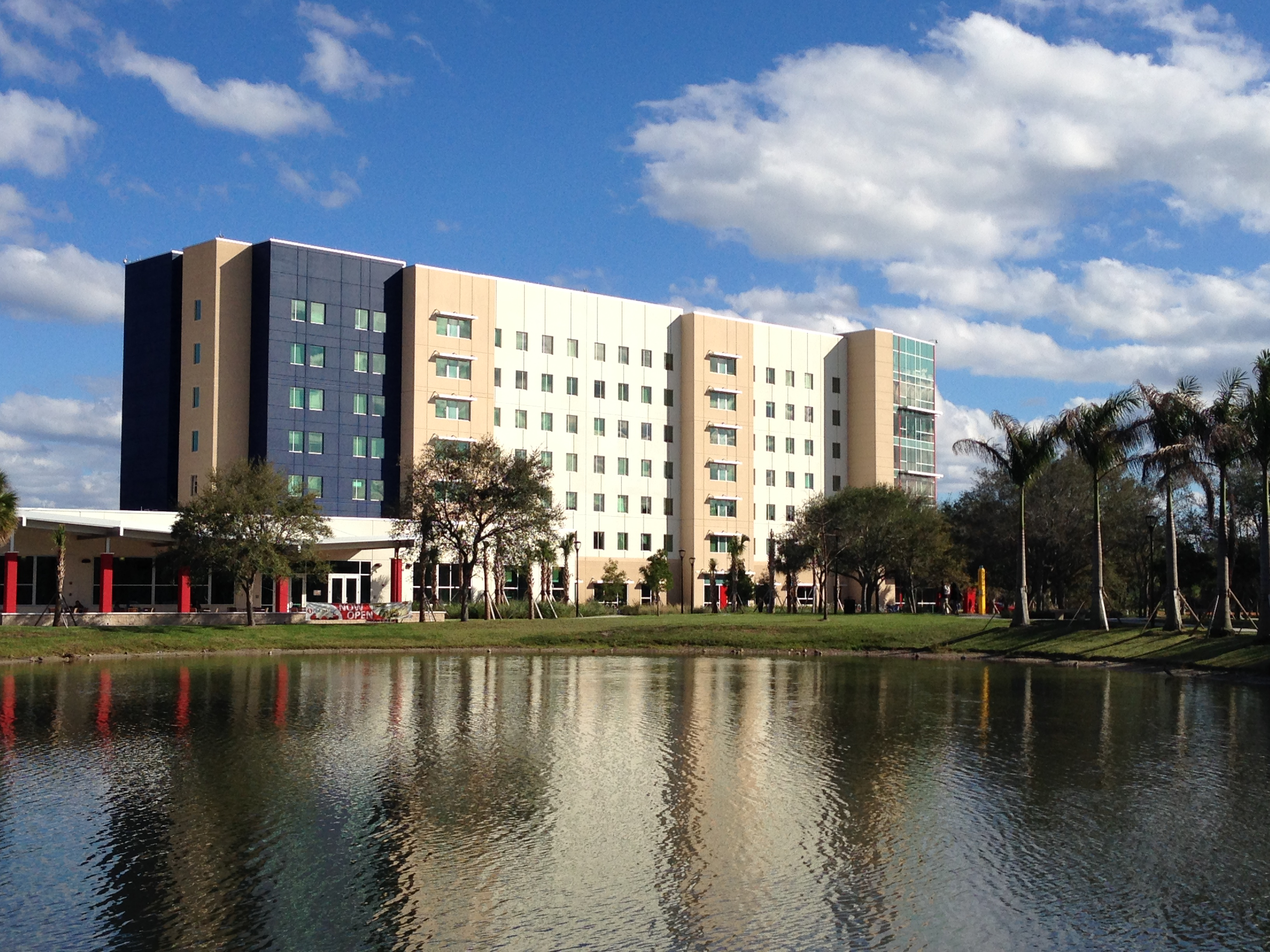 FAU's Parliament Hall, providing freshmen housing on the Boca Raton campus